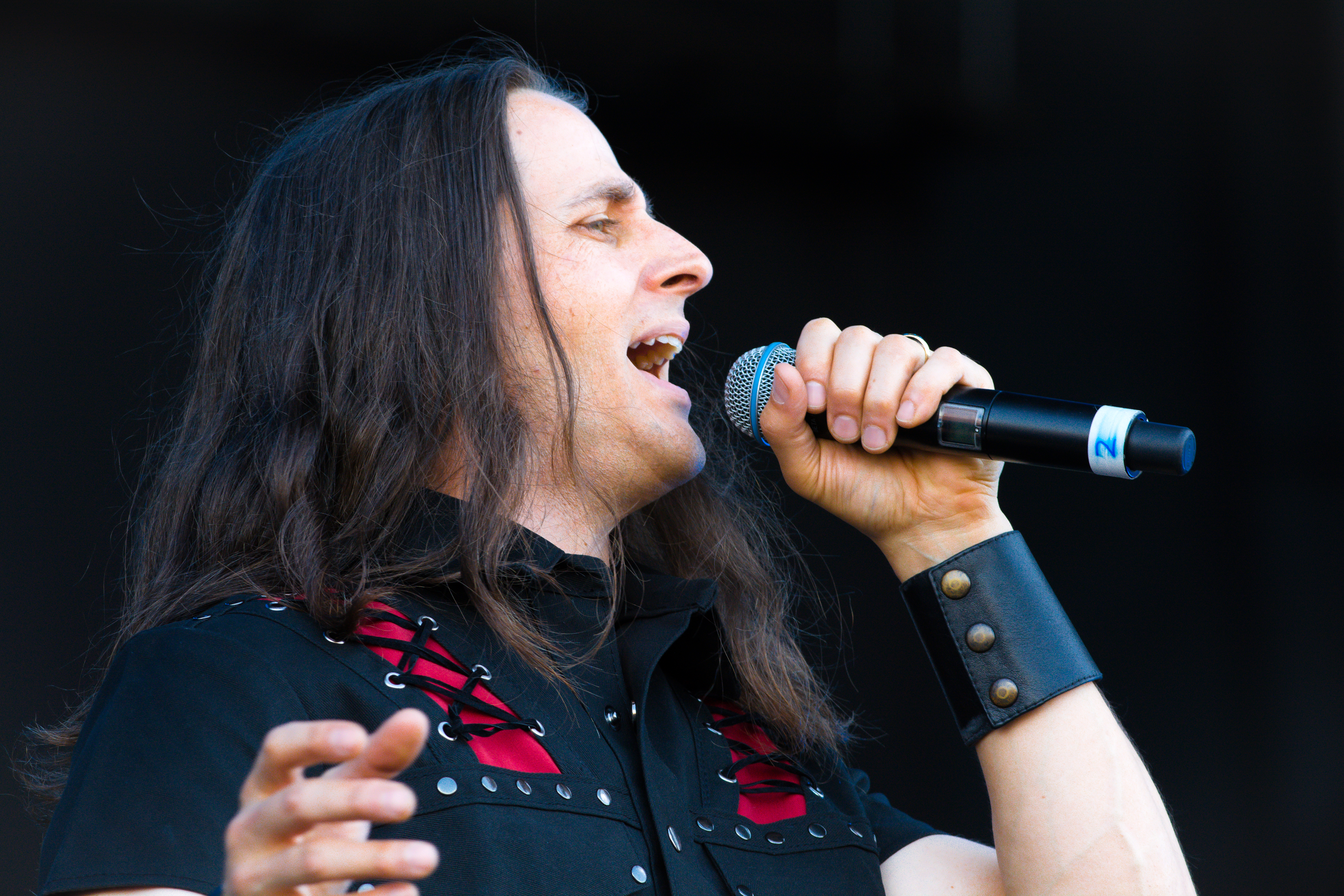 Riot V playing at Wacken Open Air 2018